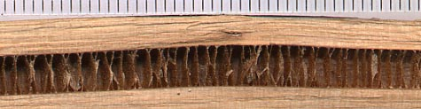 Walnut twig showing chambered pith (scale in mm)